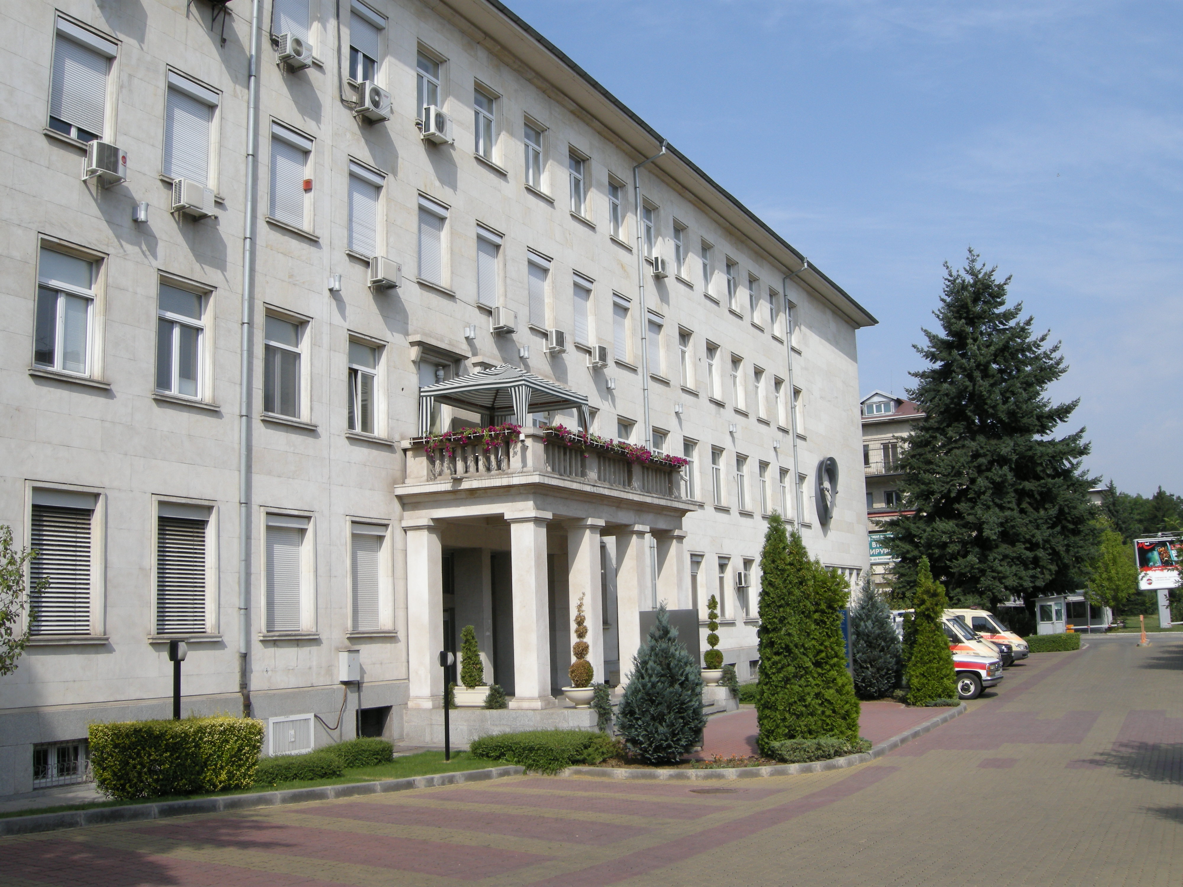 Alexandrovska hospital in Sofia, Bulgaria.